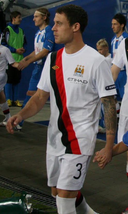 Man City go onto pitch Lech Poznań vs Manchester City FC, 4 November, 2010